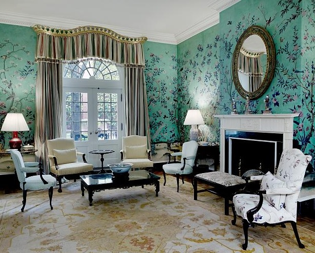 The Dillon Room at the President's Guest House, Washington DC, in 2007.